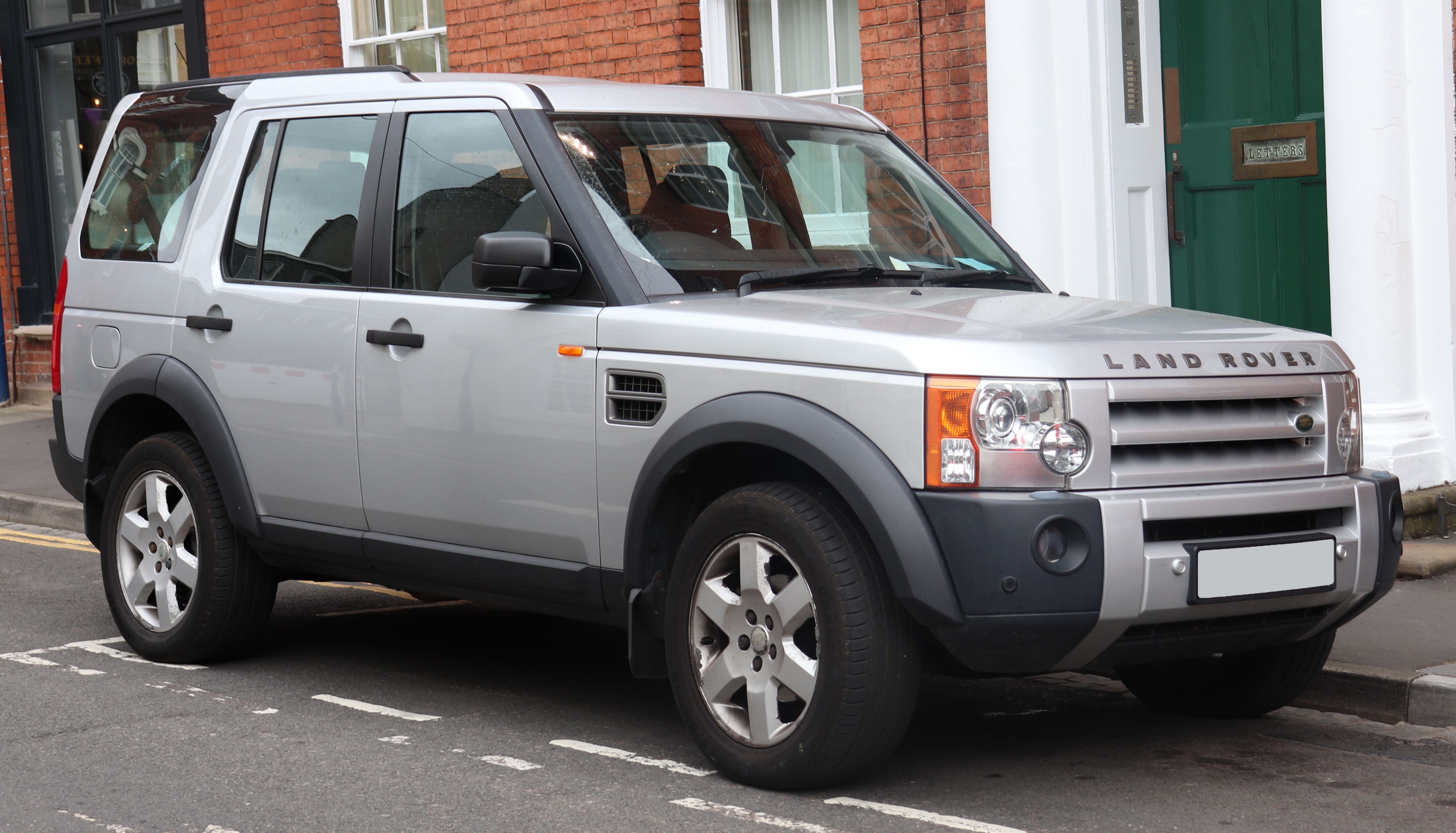 Early 2004 Land Rover Discovery 3 TDV6 HSE 2.7 Front Taken in Warwick